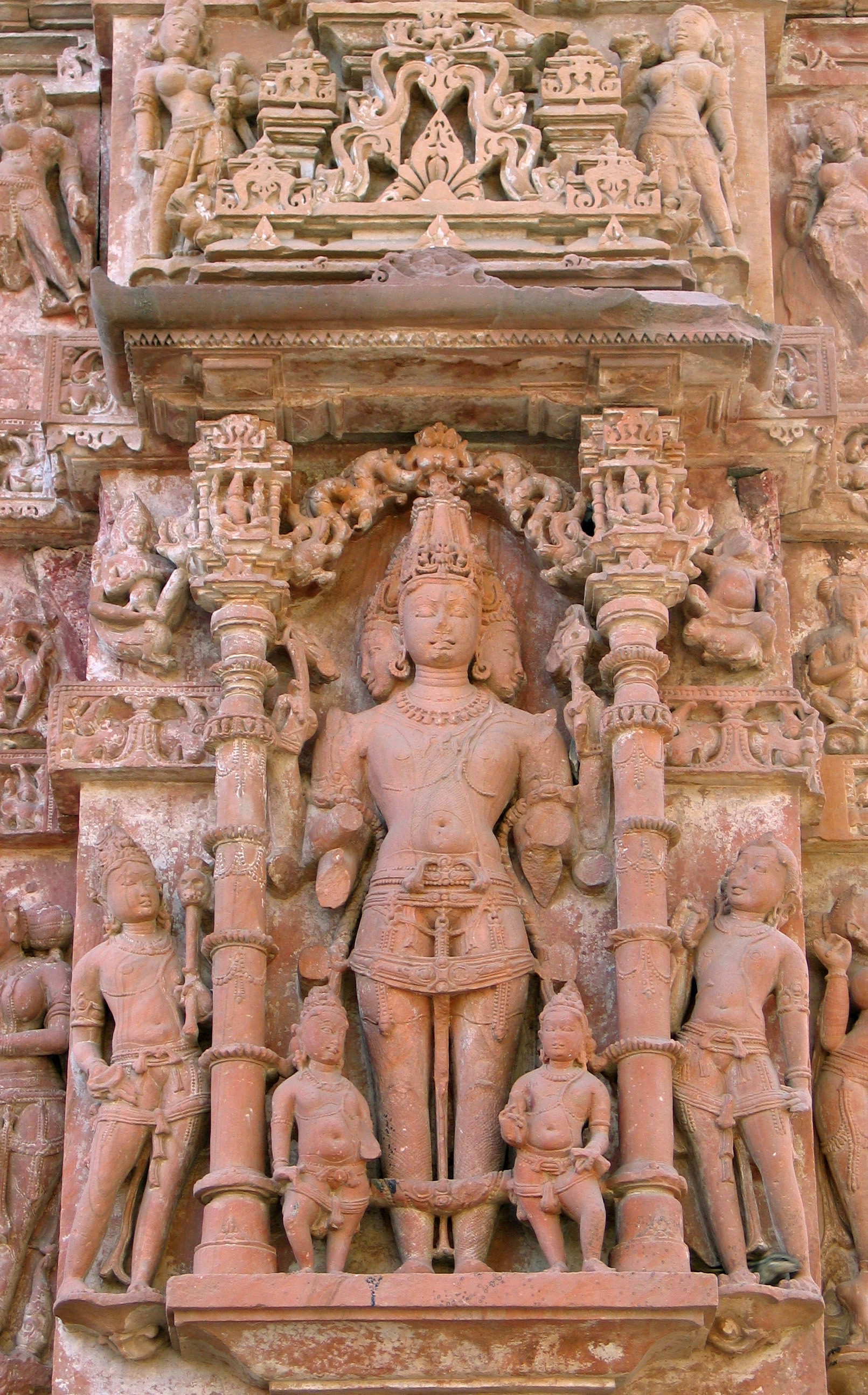 Jhalrapatan: Padam Nath Temple (Surya Temple), statue of Surya